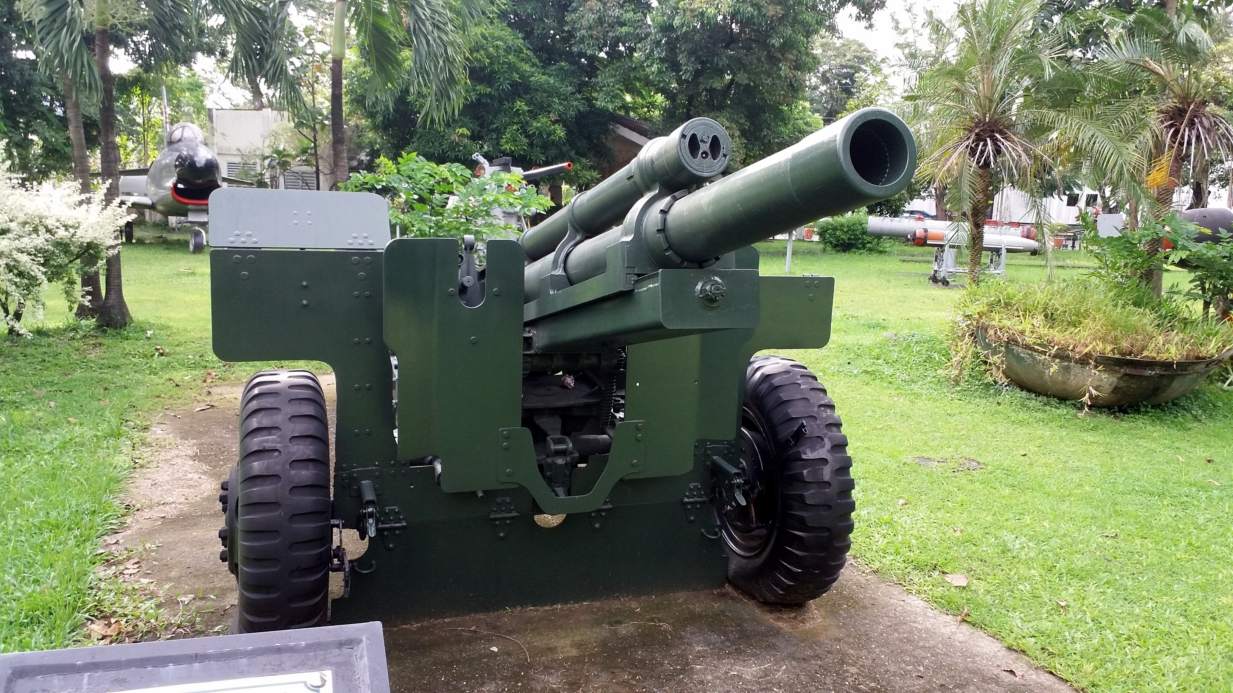 Front view of an M101 Howitzer of the Philippine Army. Photo taken at the Armed Forces of the Philippines Museum in Camp Aguinaldo.